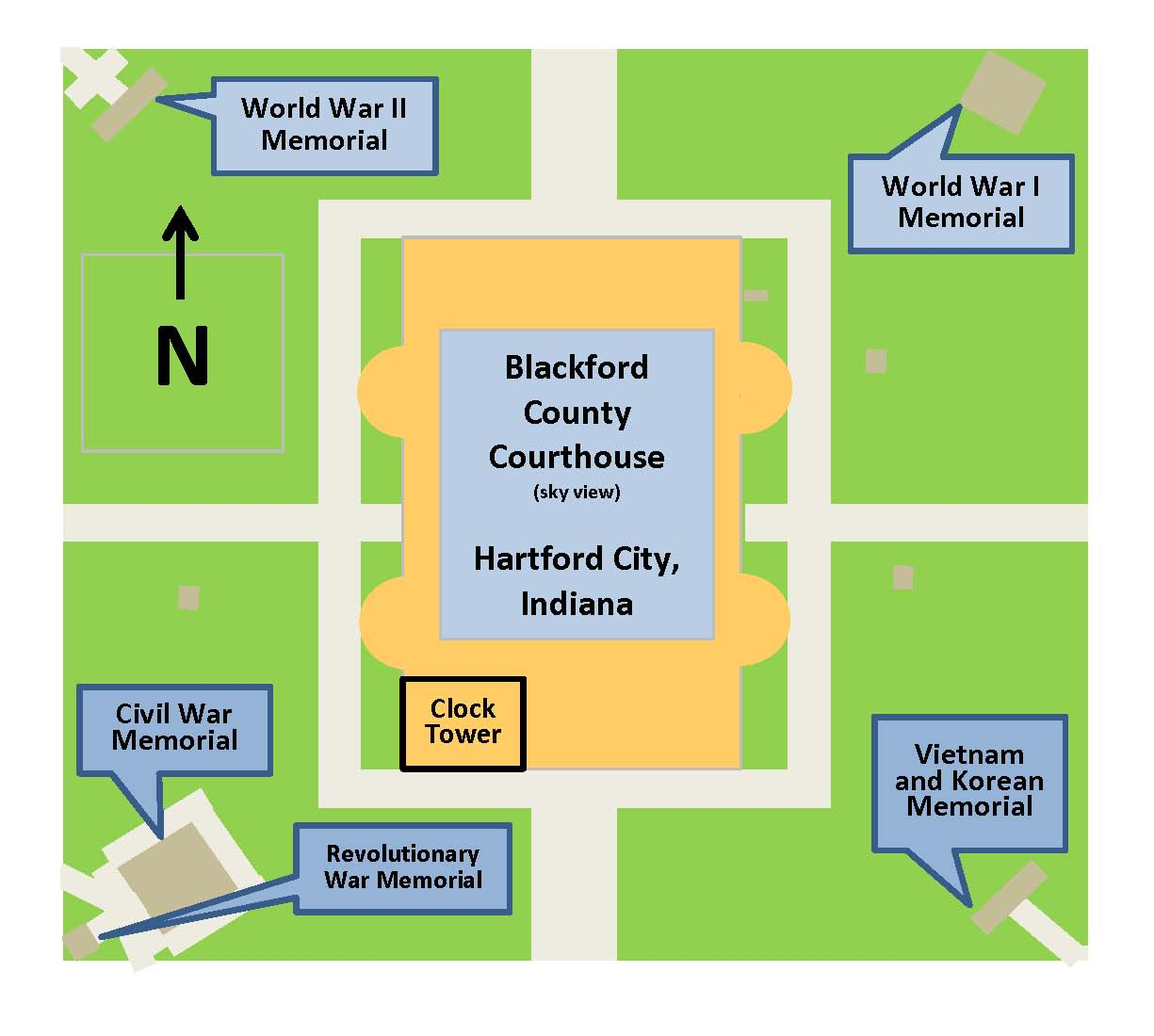 Diagram of Blackford Courthouse grounds in Hartford City, Indiana, USA. Historic courthouse grounds are also the site of county war memorials.